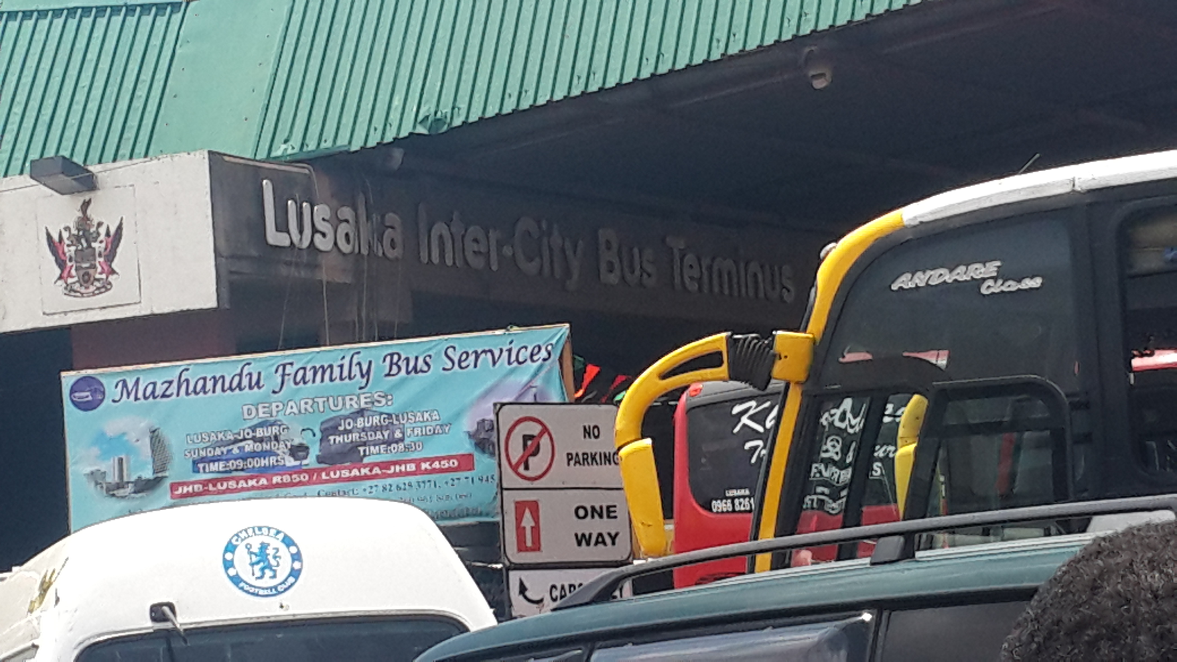 Lusaka Intercity Bus stand